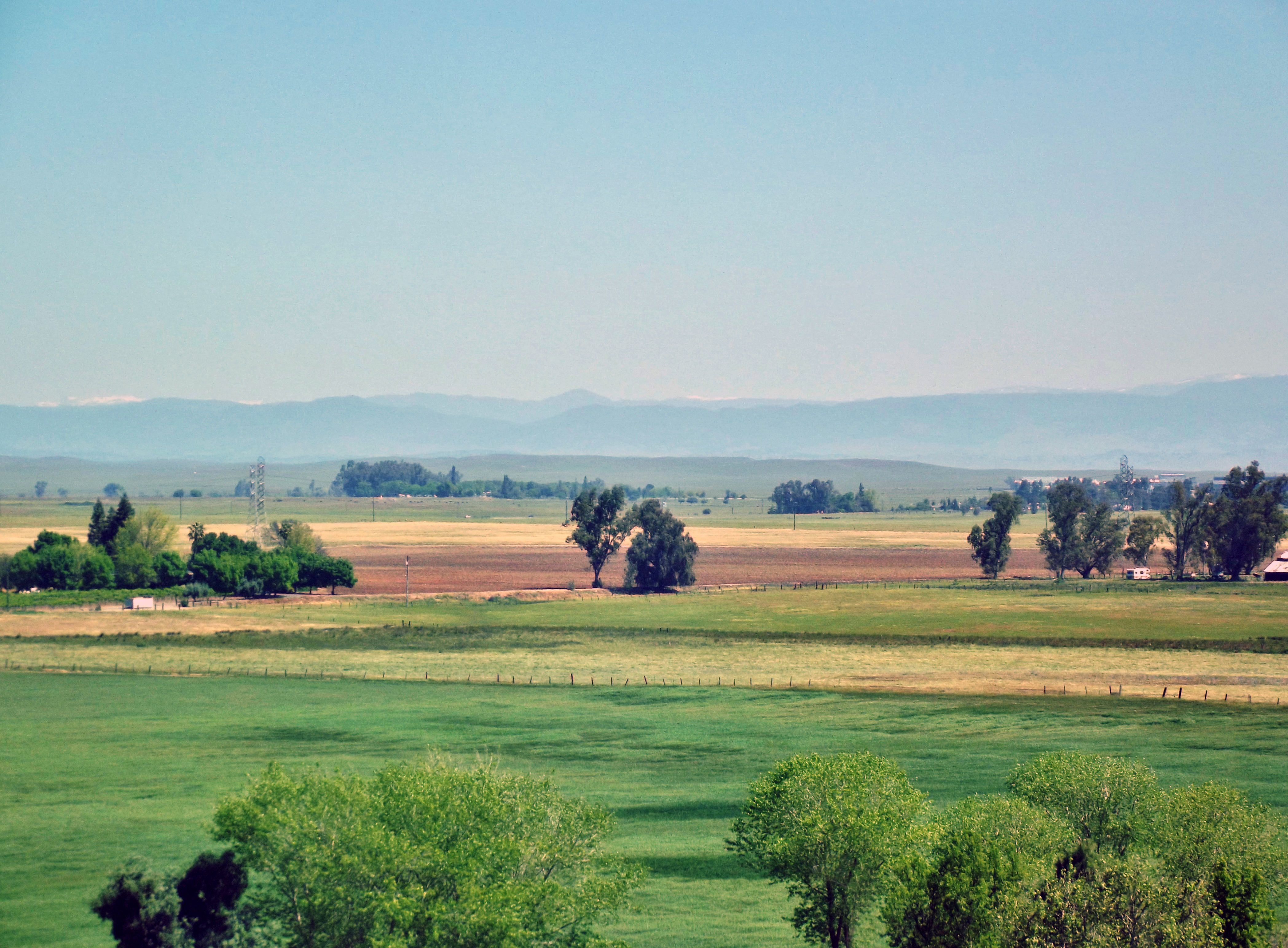 San Joaquin Valley in Merced County, California.